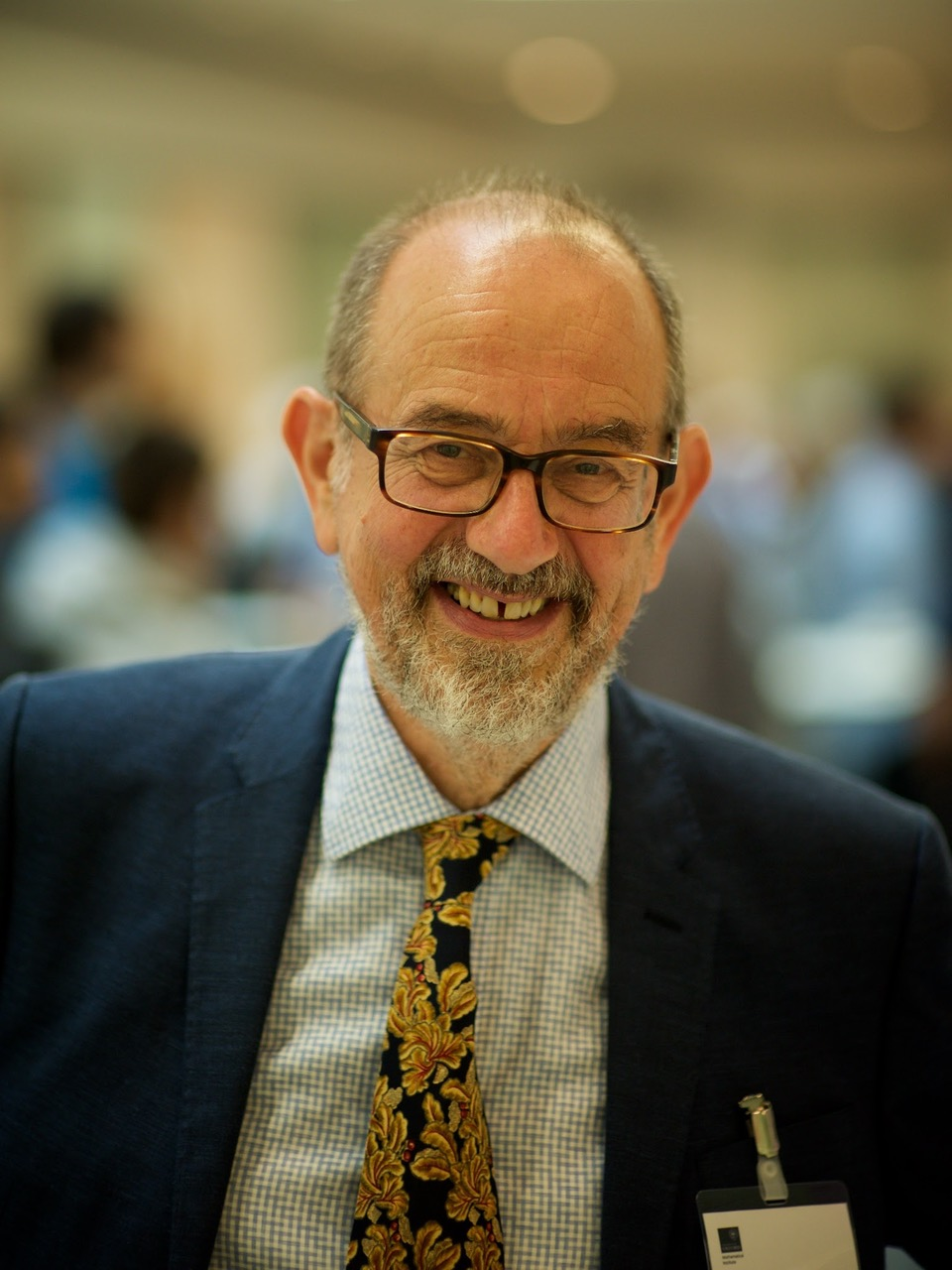 Nigel Hitchin on the occasion of his 70th birthday conference in Oxford. Sept 2016